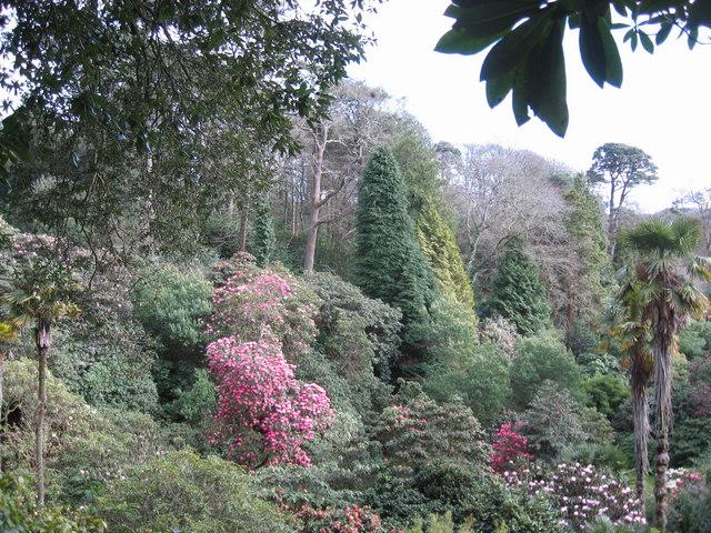 Trebah gardens Camelias proliferate here in Spring.